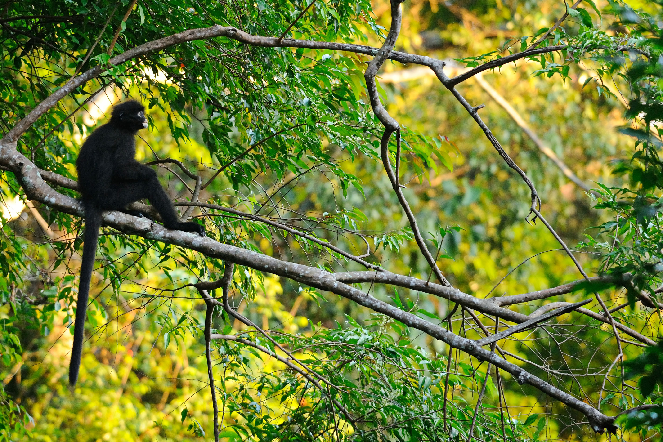 Banded Langur, Presbytis femoralis in Kaeng Krachan national park. Also known as Banded Surili, or Banded Leaf Monkey. This photo is published under the Creative Commons Attribution-Share-Alike Licence. You are free to use this image, as long as it is shared with attribution under the same licence together with the appropriate credits: By: Tontan Travel Link